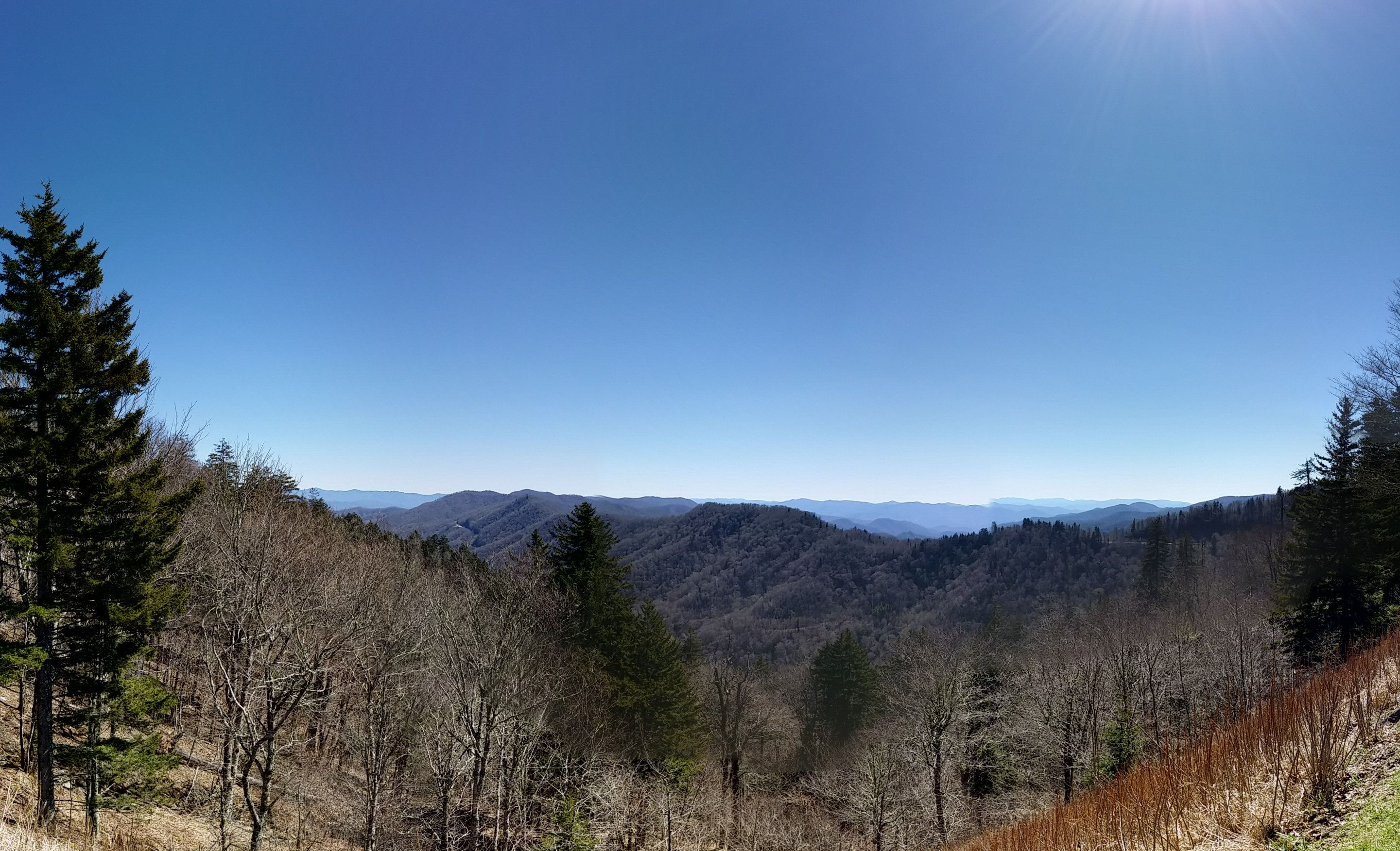 Panorama Picture of the Great Smoky Mountains National Park